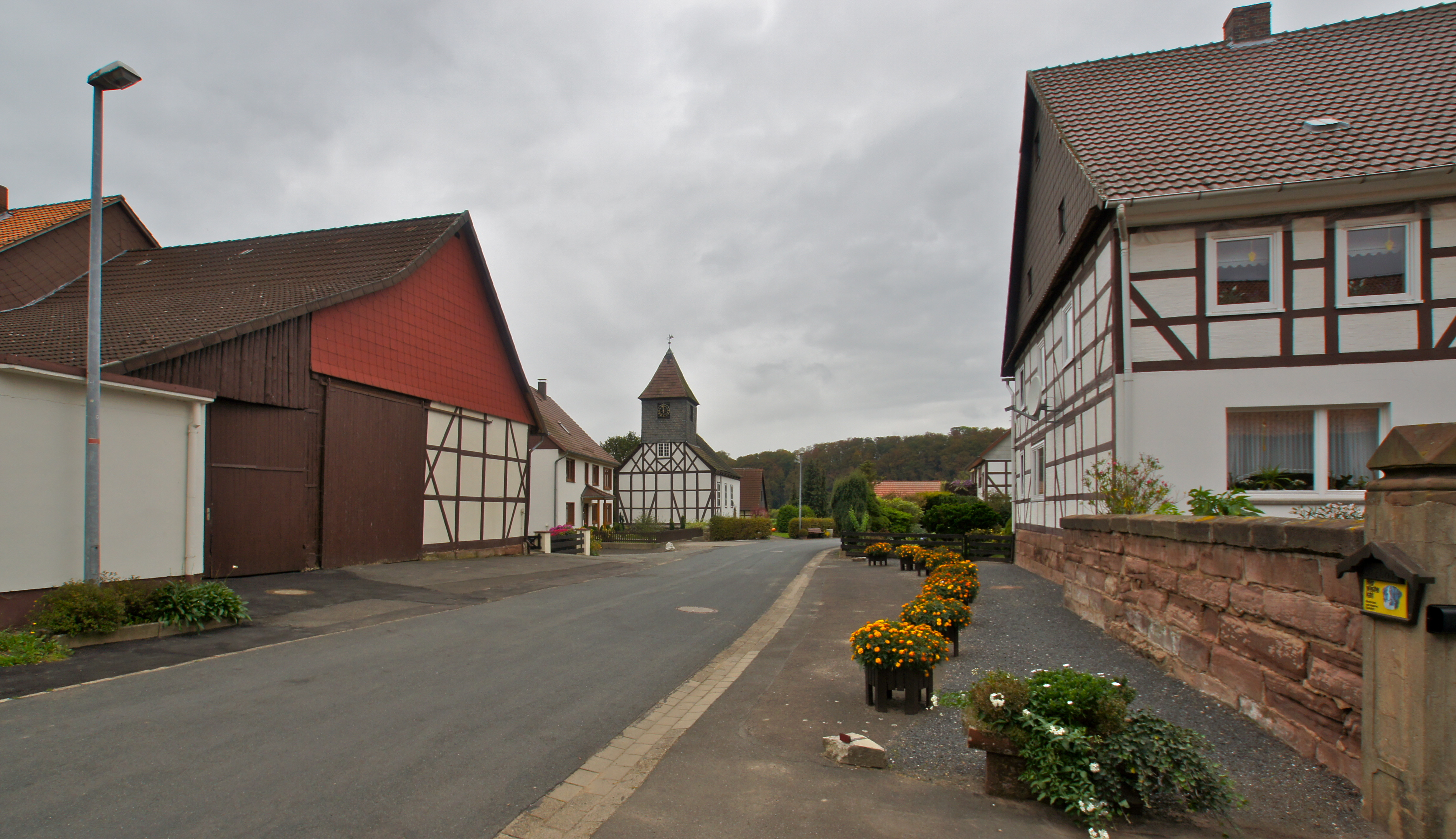 Kreiensen (Olxheim), Germany: Panorama